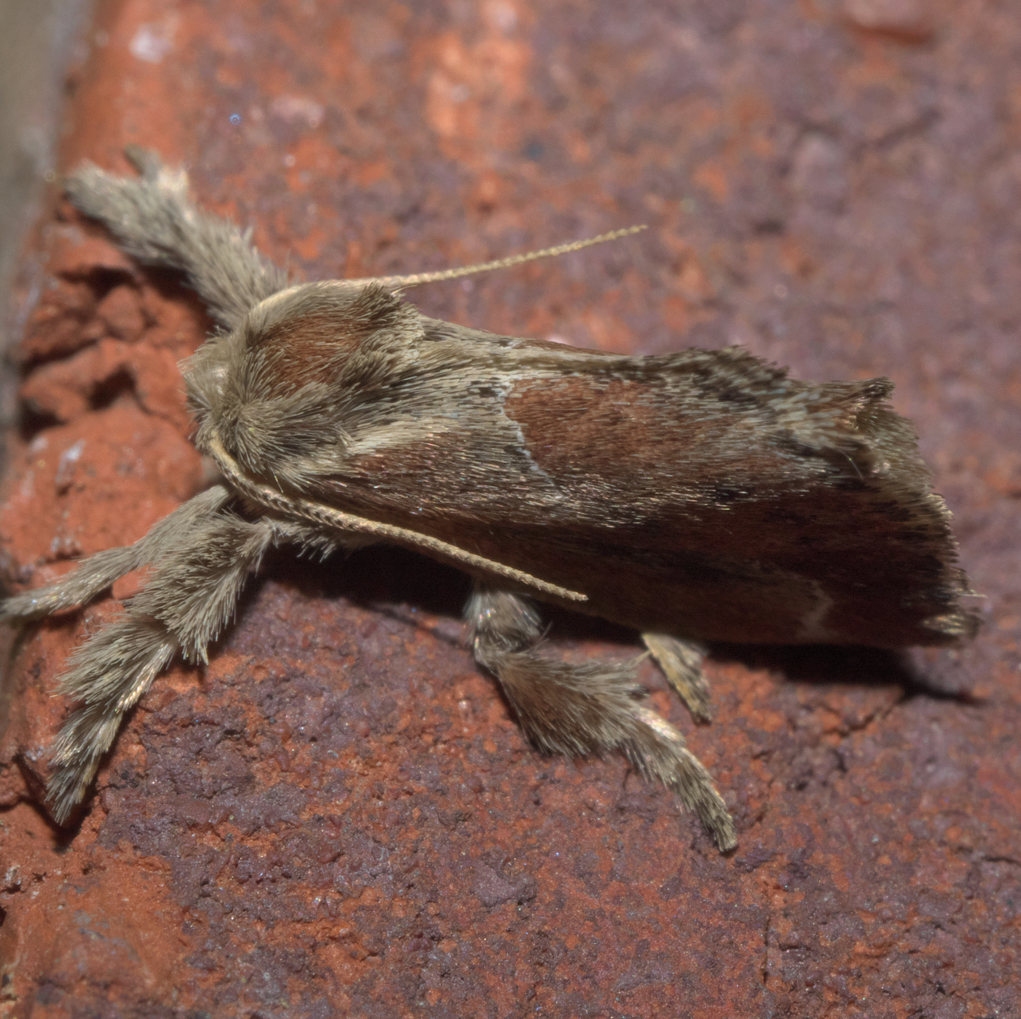 Adoneta spinuloides, Purple-crested Slug Moth - Hodges #4685, Size: 9.6 mm, ID Confidence: 88